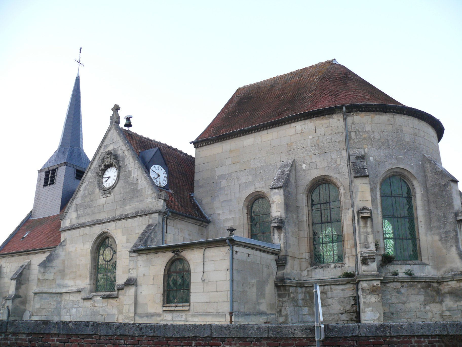 Saint-Vaast's church of Marest-sur-Matz (Oise, Picardie, France).